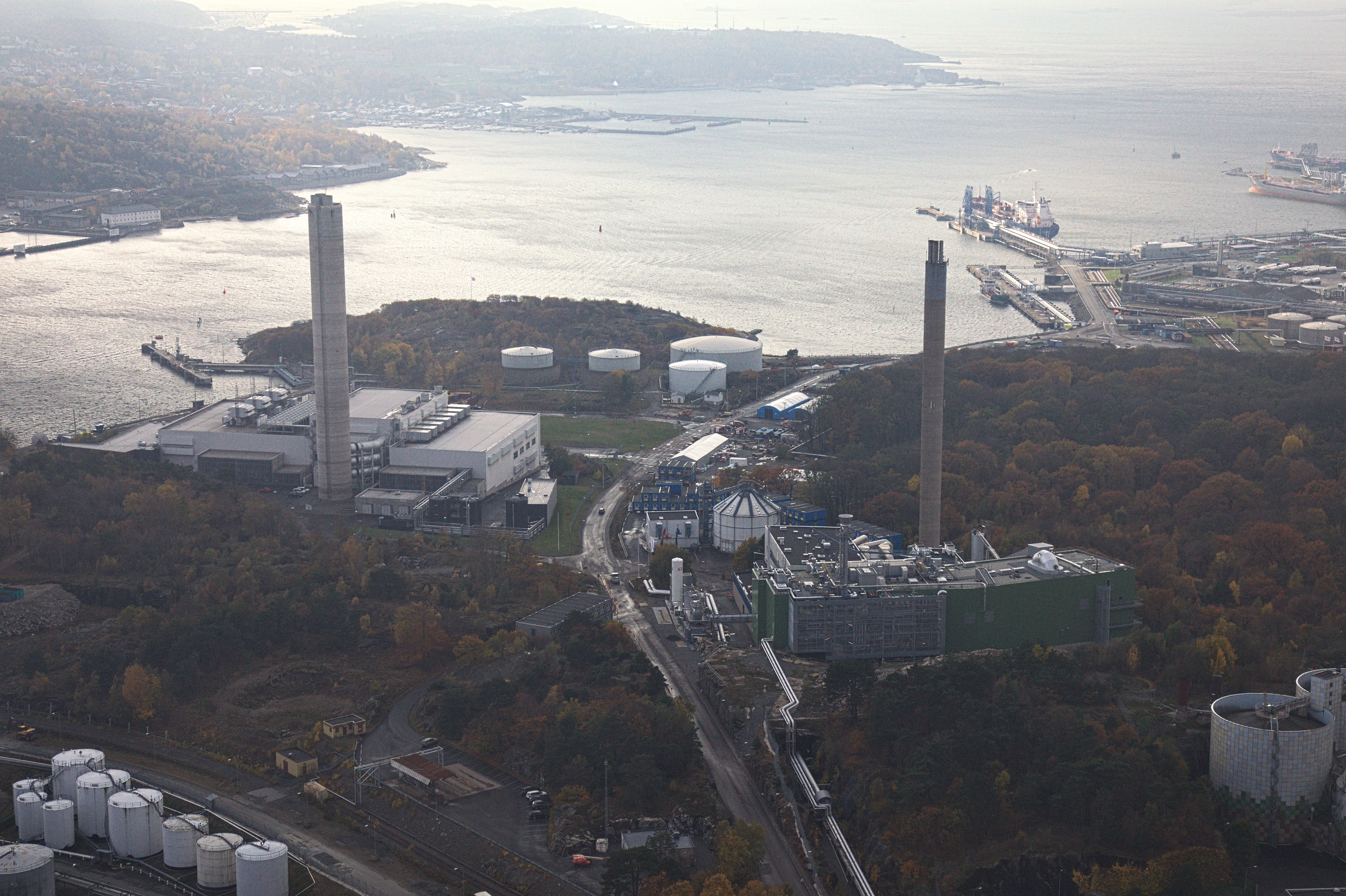 Photo taken on a helicopter over Gothenburg